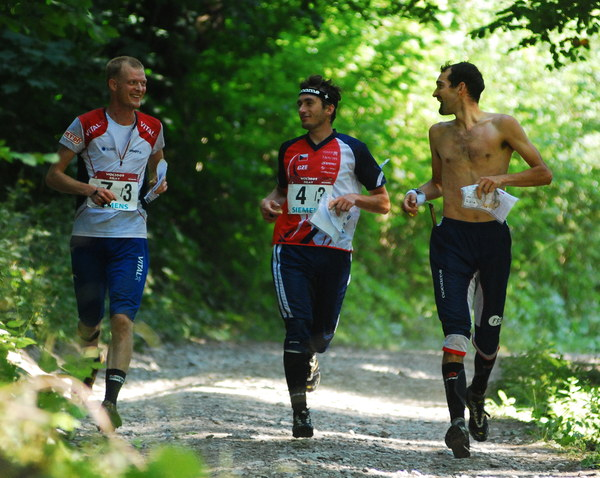 (left to right) Anders Nordberg, Michal Smola, and Thierry Gueorgiou, collectively "Team Fairplay", after rescuing Martin Johannson during the World Orienteering Championships 2009 men's relay race.